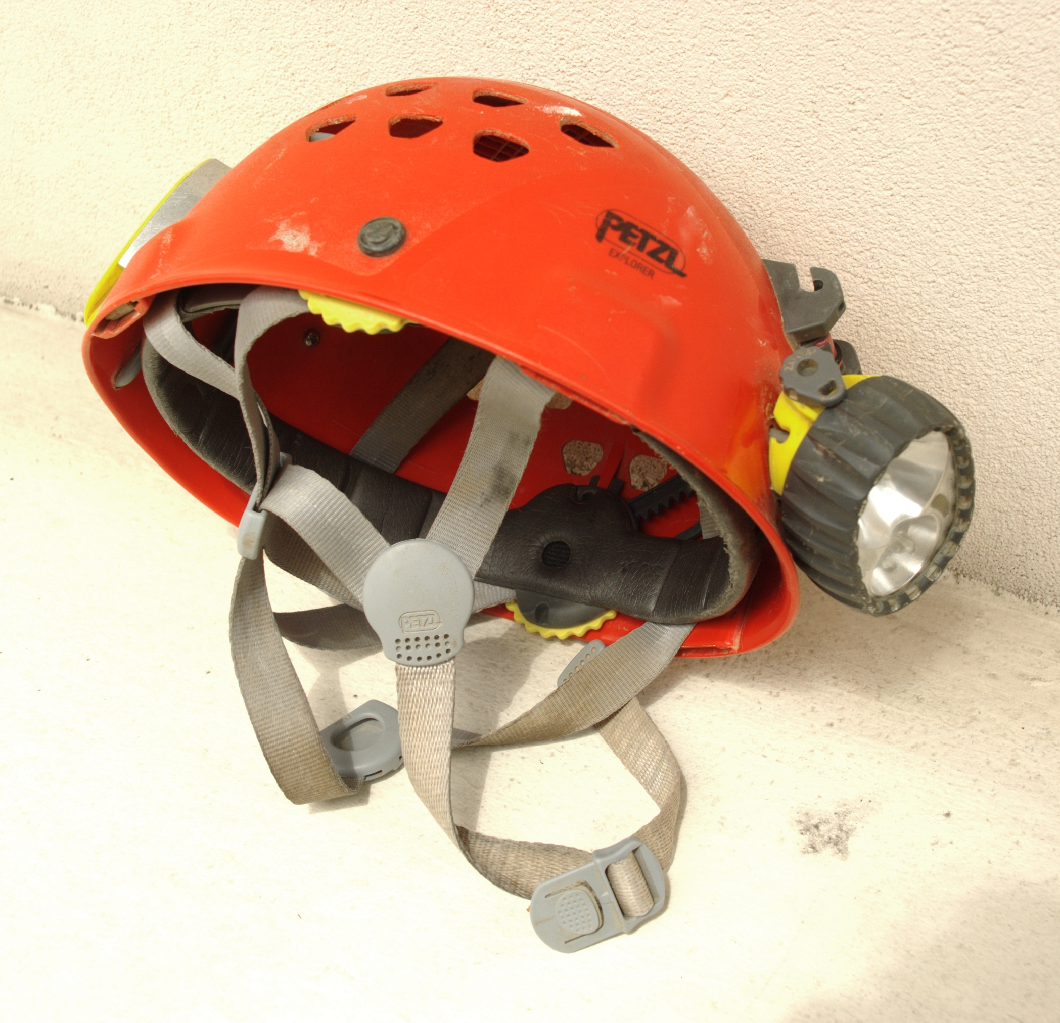 Speleology helmet by Petzl.